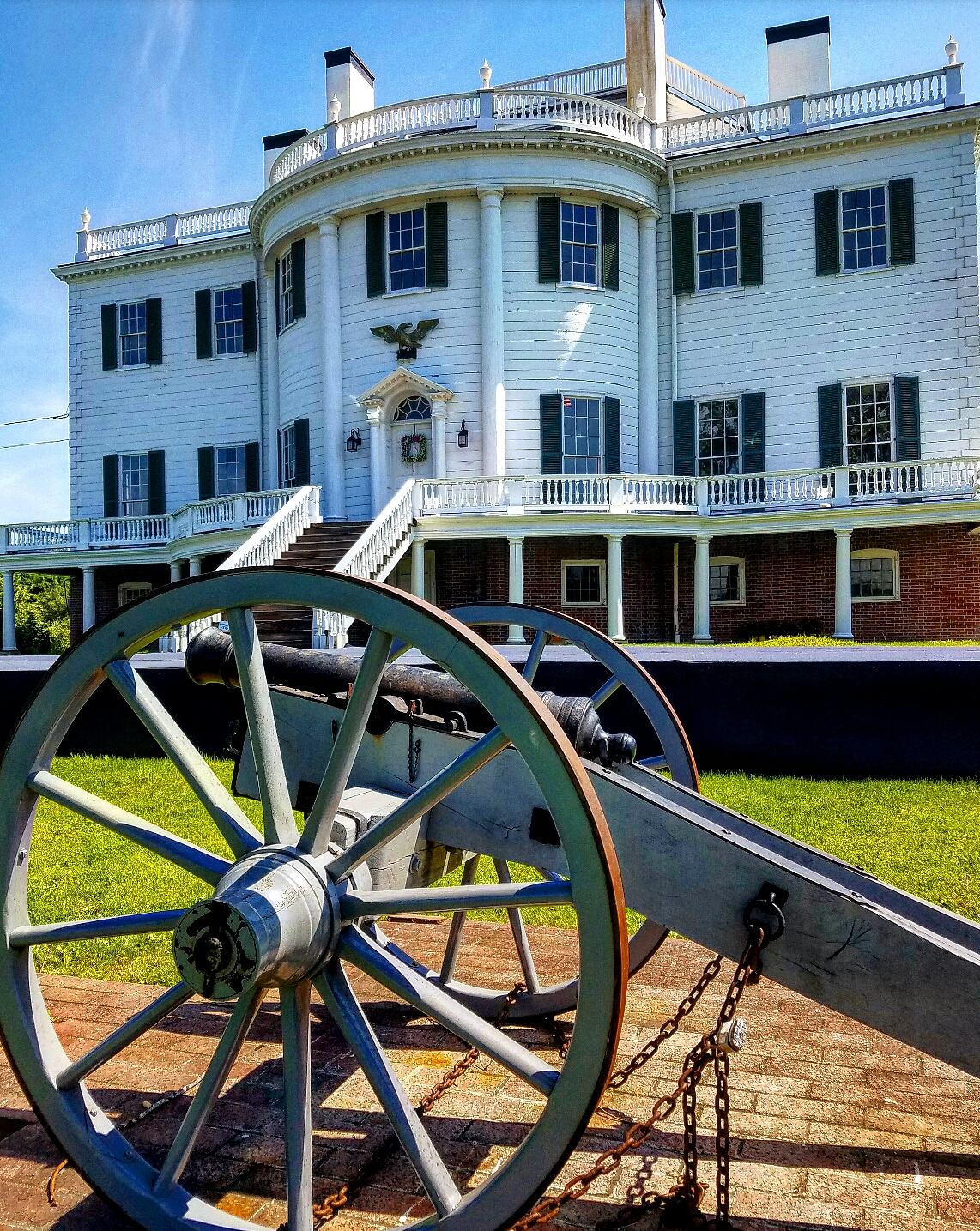 Home of Revolutionary War General Henry Knox